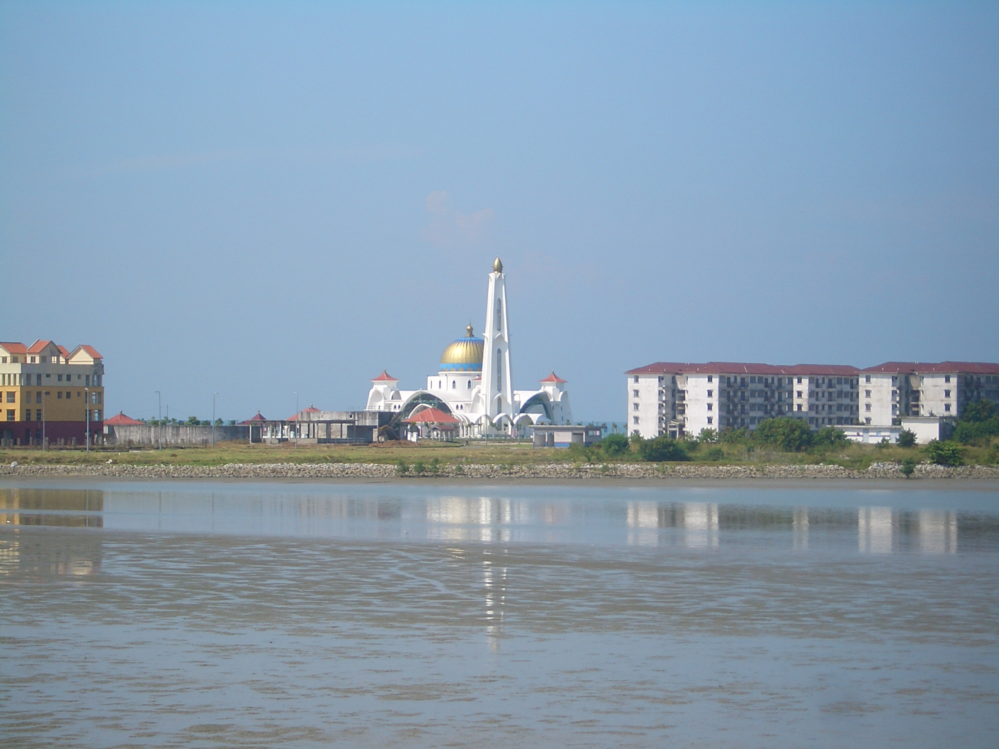 Masjid Selat Melaka on Pulau Melaka seen from the nearby pier on the mainland (converted into a shopping/recreation mall)